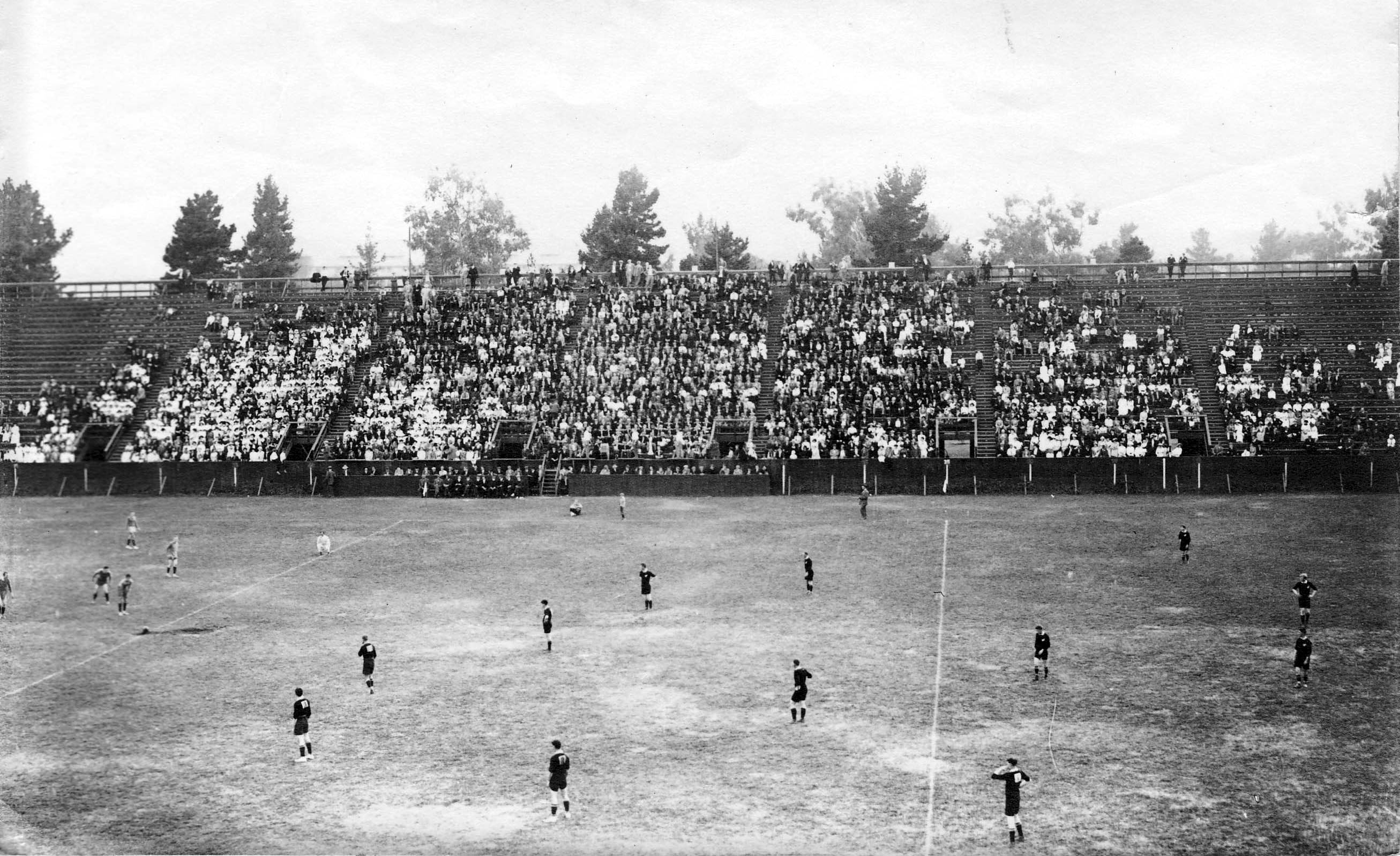 Stanford University v. the All Blacks, during the NZ team tour to US. Stanford had switched from American football to rugby in 1906, after concerns about violence in that sport. Stanford returned to football in 1917.